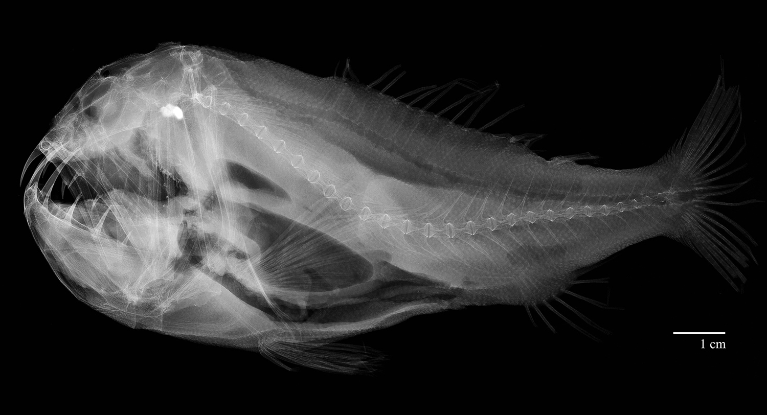 A Fangtooth, Anoplogaster cornuta, from the Bear Seamount in the Atlantic Ocean. Source: Sandra J. Raredon / Smithsonian Institution, National Museum of Natural History, Division of Fishes